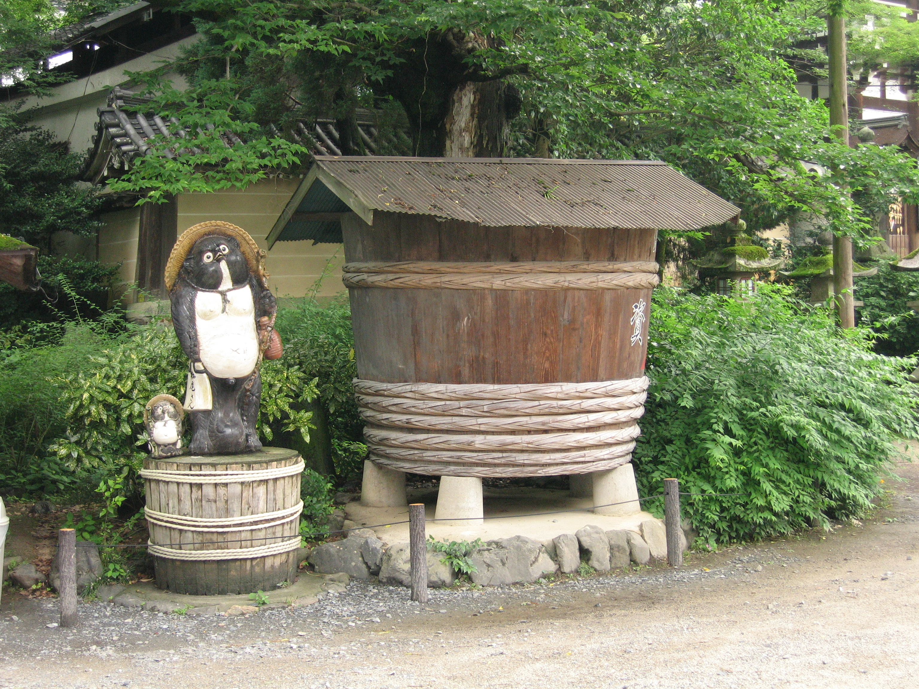 Statue of Tanuki (Raccoon) at entrance to a Shrine